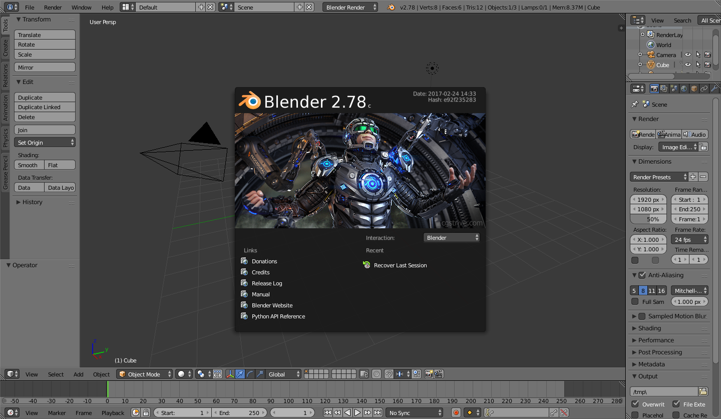 Blender 2.78